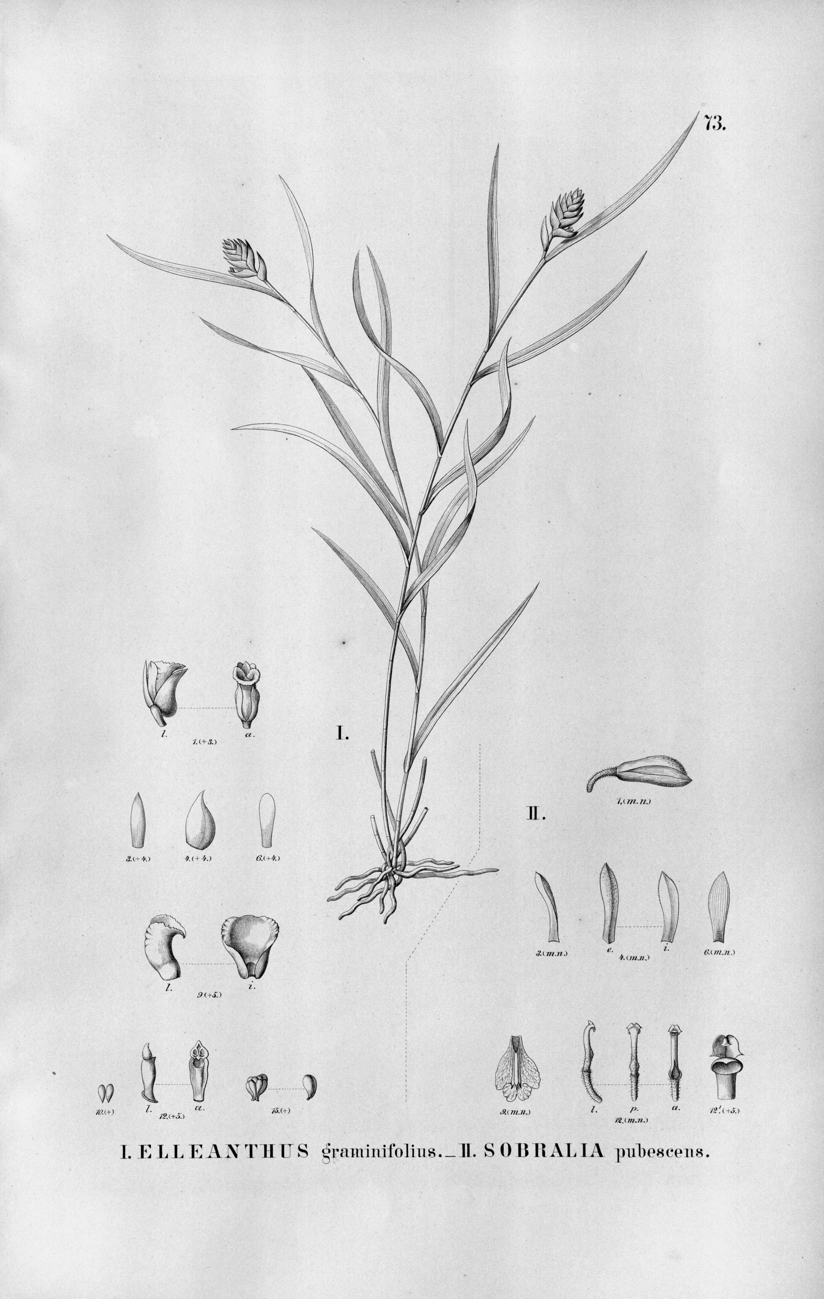 Illustration of: I. Elleanthus graminifolius II .Palmorchis pubescentis (as syn Sobralia pubescens)